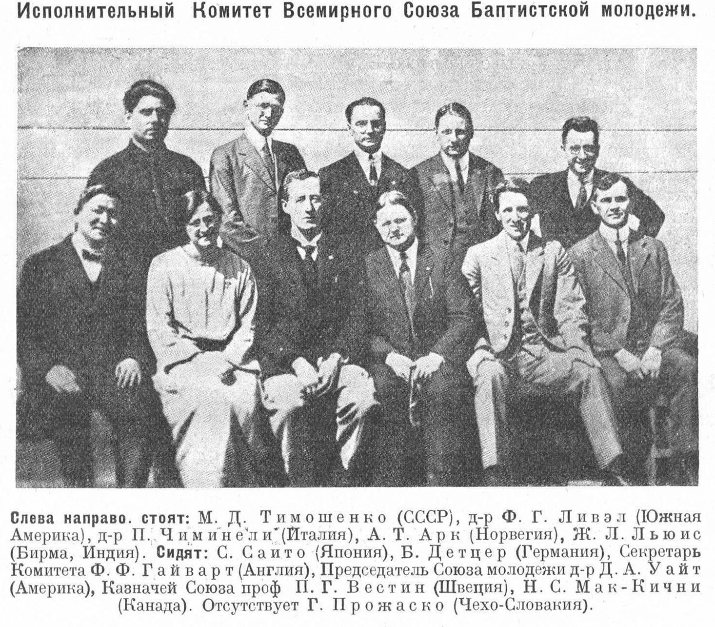 Executive Council of the World Baptist Youth (1926). Representative of USSR Baptists: M.D. Timoshenko, standing on the left